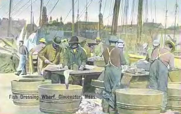 Fish Dressing Wharf in c. 1908, Gloucester, MA; from an old postcard.